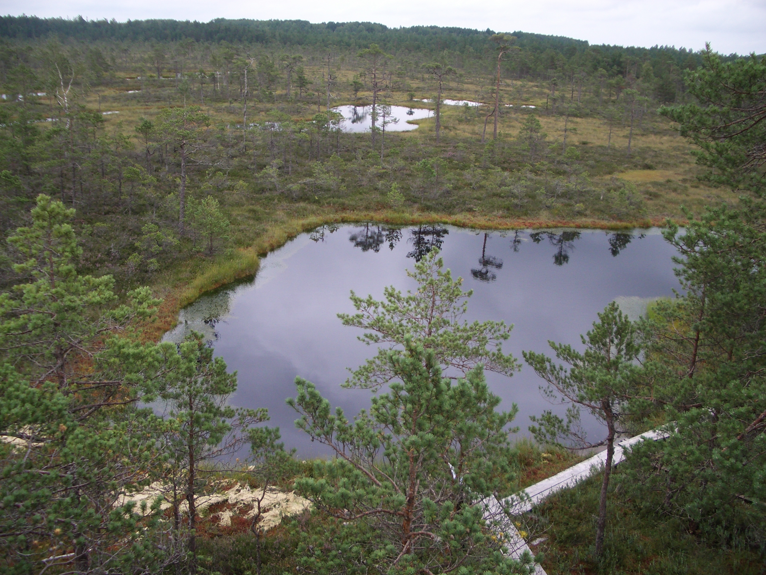 Wiev to swamp from panorama-tower. August, 2008